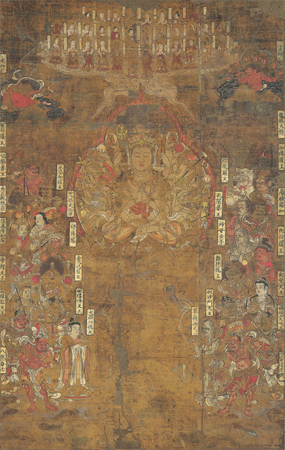 Senju Kannon with Twenty-Eight Attendants, Hosomi Museum, Kyoto, Kyoto, Japan